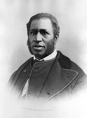 Richard H. Cain, member of the United States House of Representatives.